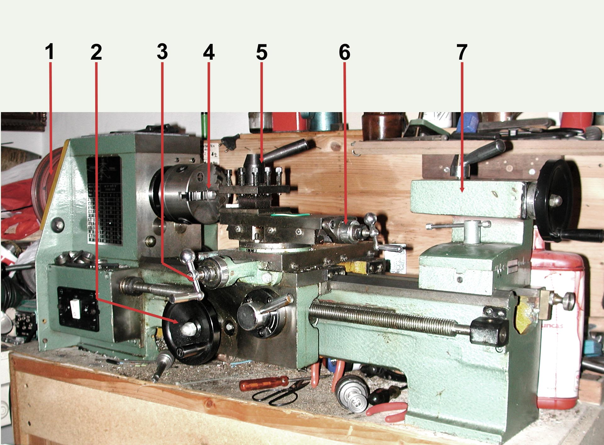 Lathe